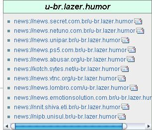 U-Br news group